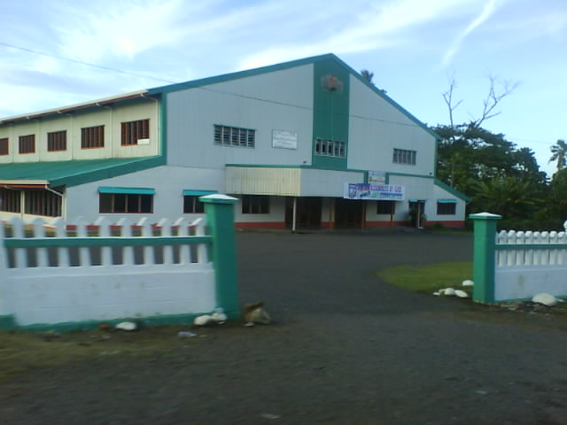 Lotopa Assembly of God Church, Apia Maota o le Fa'apotopotoga a le Atua i Lotopa, Samoa